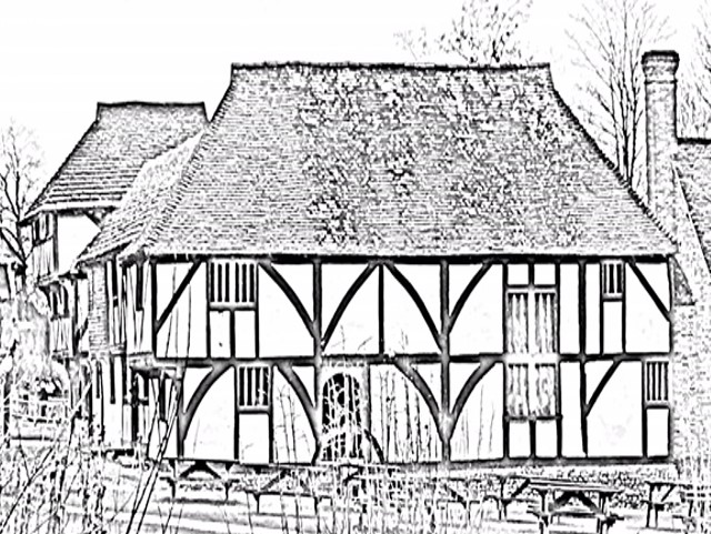 Sketch of a timber framed house at Weal and Downland museum